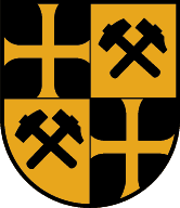 Source: "Fahnen-Gärtner GmbH, Mittersill" This file depicts a coat of arms. The composition of coats of arms are generally public domain with respect to copyright laws, and may be reproduced freely. This corresponds to the international traditional usage, and is explicitly stated in some national copyright laws. Some compositions, of more recent origin, may be copyrighted. This is not a valid license as such, being a "public domain" statement for the coat of arms definition only. It must be completed with the copyright tag associated to the picture creation. See Commons:Coats of arms for further information. Please note that this applies only to the coat of arms definition (composition / description). The representation of a coat of arms is an artistic creation, subject as such to copyright laws. Restriction of use - Legal notice: Most of the time, the usage of coats of arms is governed by legal restrictions, independent of the status of the depiction shown here. A coat of arms represents its owner. Though it can be freely represented, it cannot be appropriated, or used in such a way as to create a confusion with or a prejudice to its owner. Usage on Commons: Please provide licence information for the coat of arm representation, information for the author of the picture, and the source if not self-made work. This image is in the public domain according to Austrian copyright law because it is part of a law, ordinance or official decree issued by an Austrian federal or state authority, or because it is of predominantly official use. (§7 UrhG) To uploader: Please provide where the image was first published and who created it.